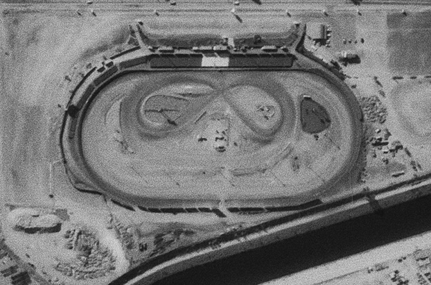 Image of Ascot Park Speedway taken in 1972. USGS Earth Explorer ID: AR1VCYY00030103